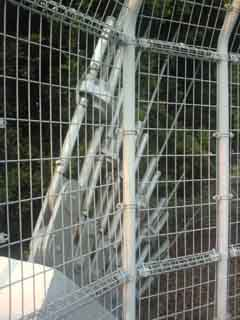 Togane relay station's anchor